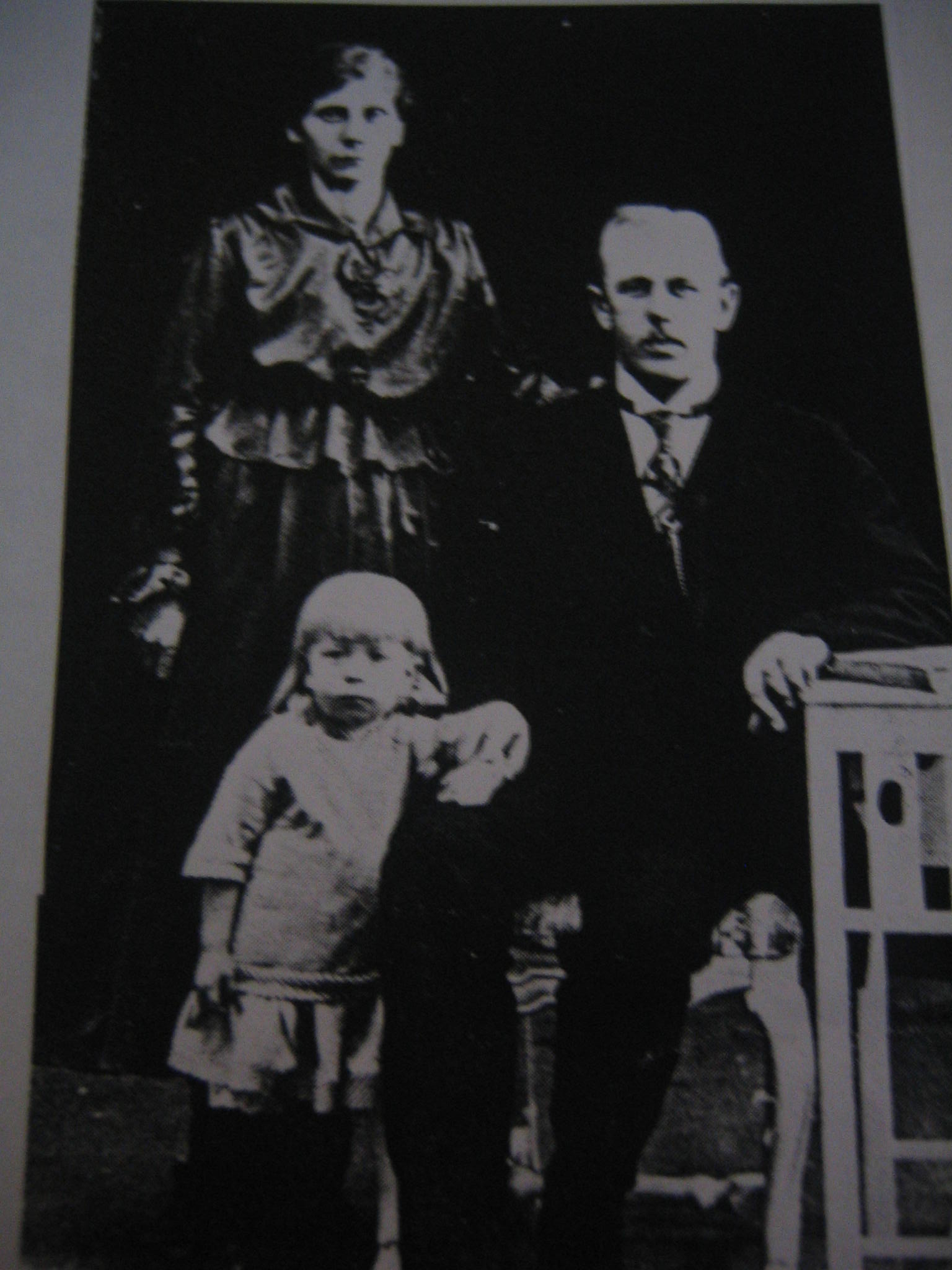 Finnish red guard leader Erkki Karjalainen with family